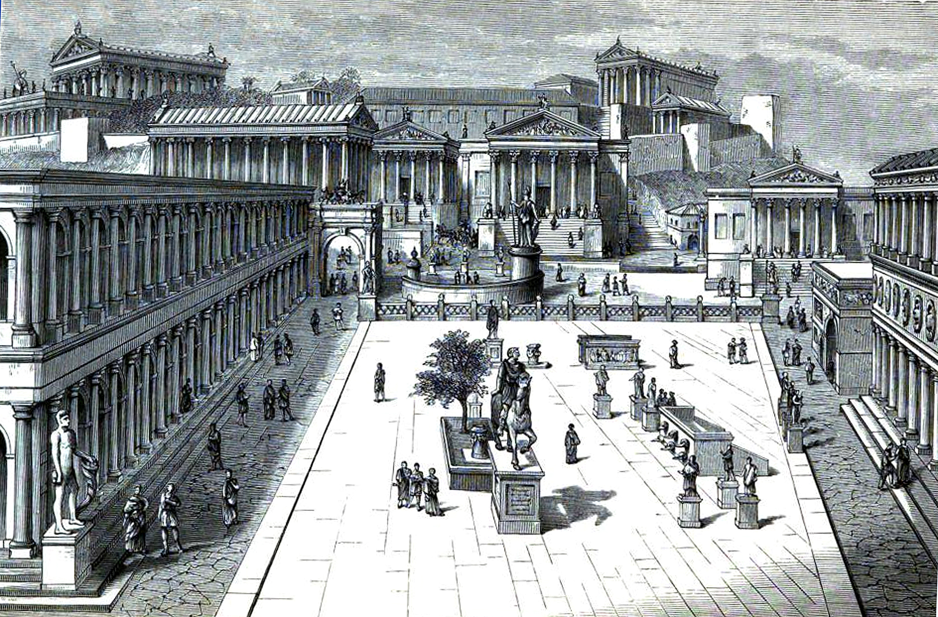 The Roman forum and the comitium after 44BC